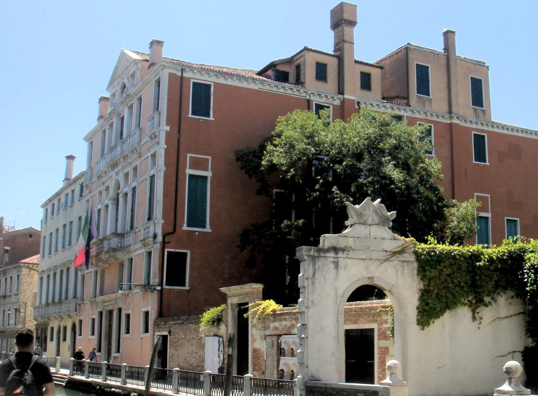 Palazzo Soranzo Cappello (XVI sec.)